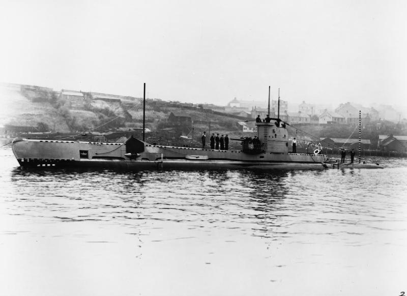 British U class submarine HMSM UNSWERVING underway, coastal waters.